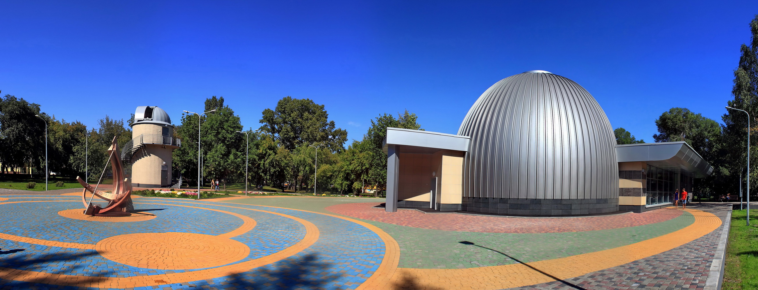 Planetarium in Novokuznetsk. Stitched Panorama